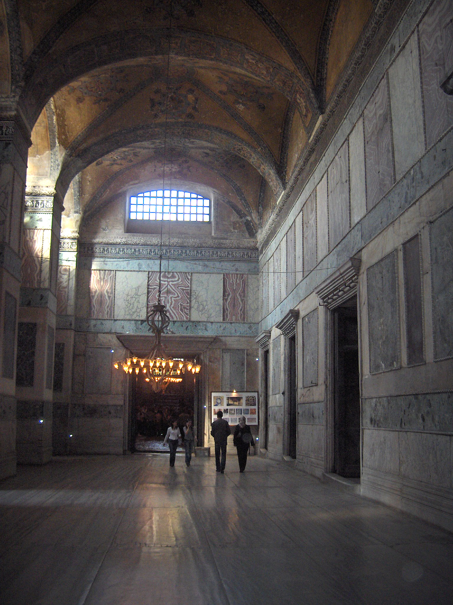 Hagia Sophia,narthex; Istanbul, Turkey